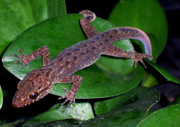 Javan bent-toed gecko Cyrtodactylus marmoratus from Darmaga, Bogor, West Java, Indonesia